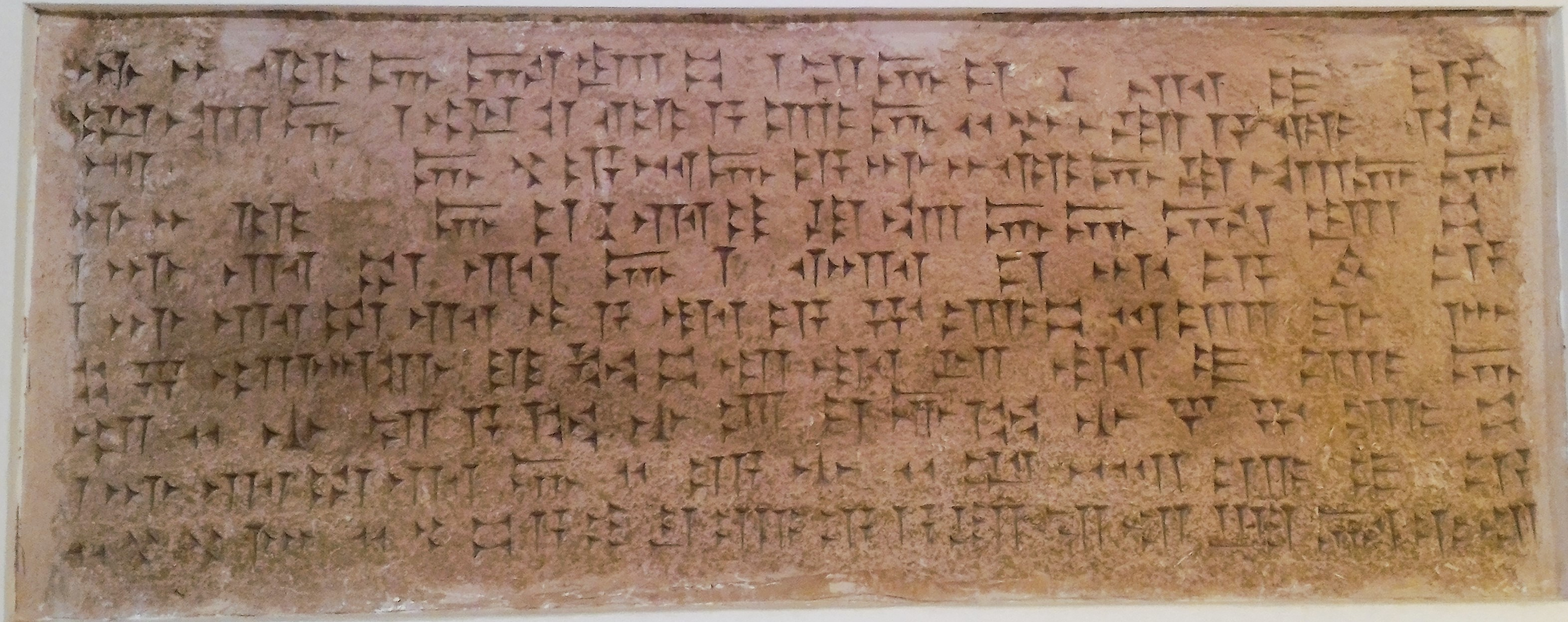 Seqindel Rock Inscription-Urartian Azerbaijan musieum